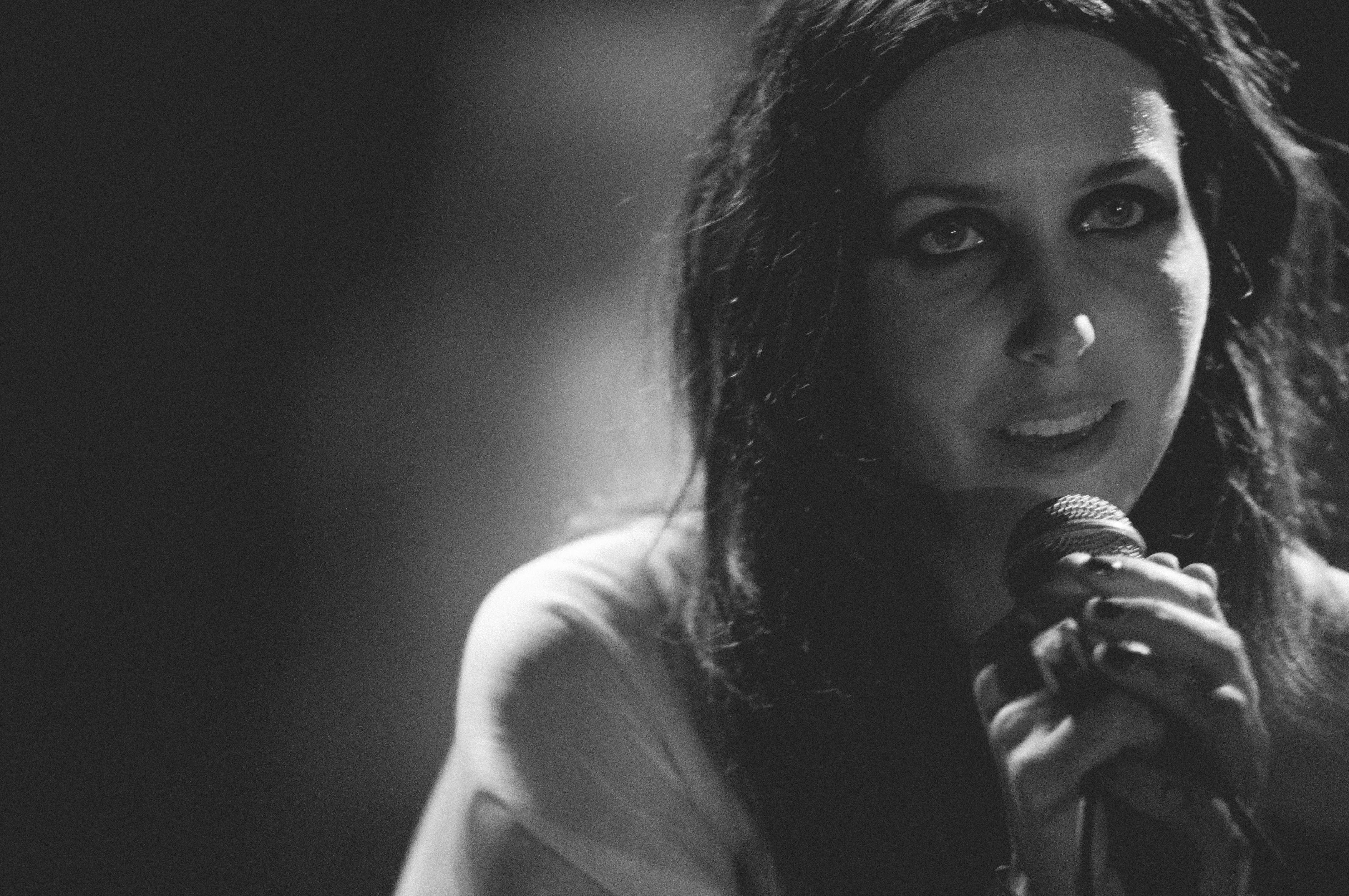 Wolfe at the Great American Music Hall, 2013